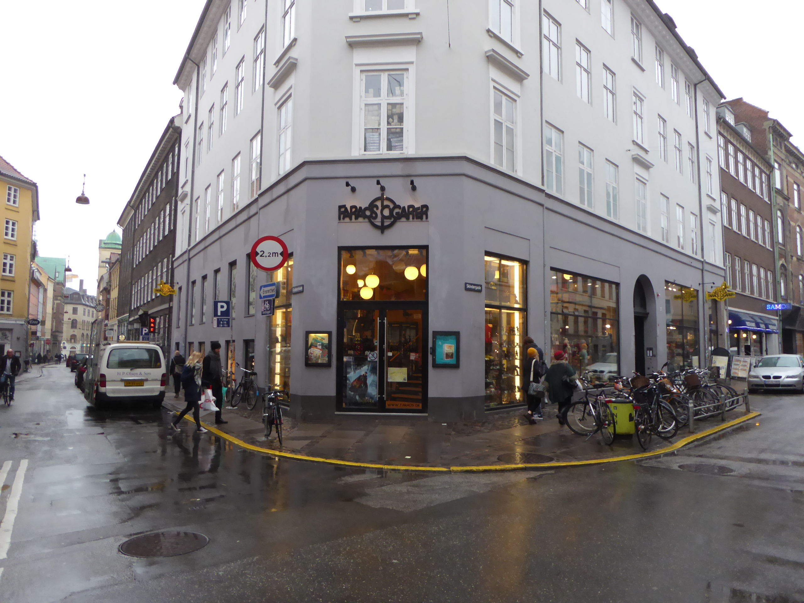 The comics shop of the chain Faraos Cigarer at the corner of Klosterstræde and Skindergade in Indre By in Copenhagen.